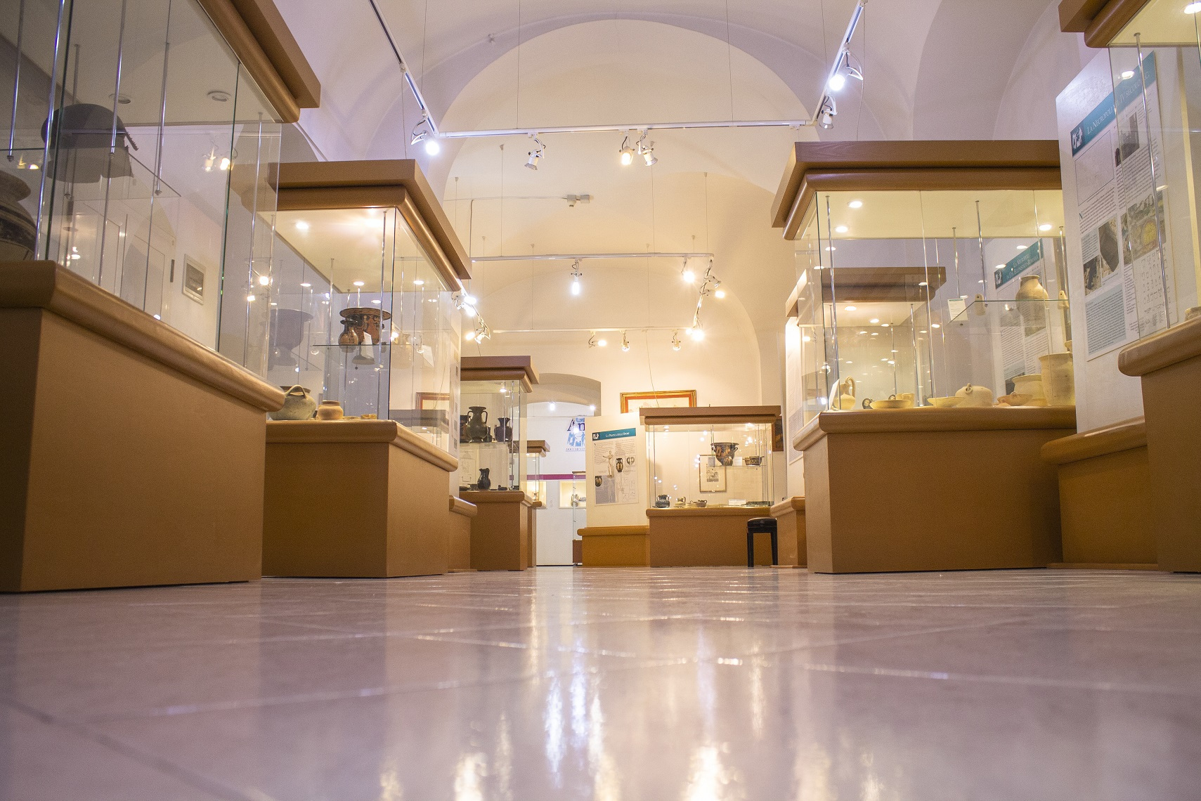 Museo Archeologico di Bitonto